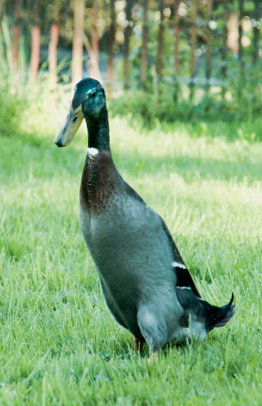 Indian Runner Duck